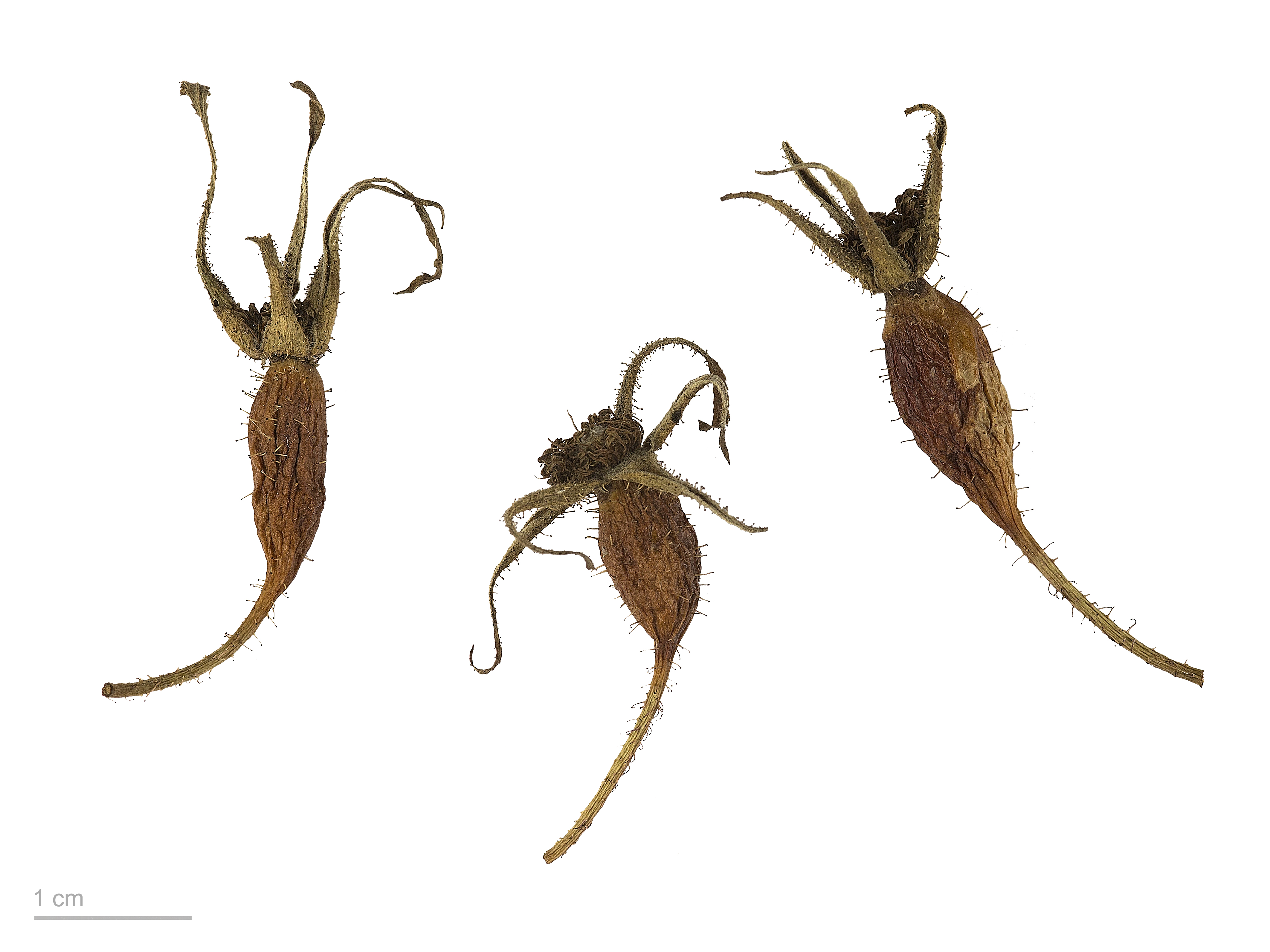 Rosa pendulina , fruits and seeds